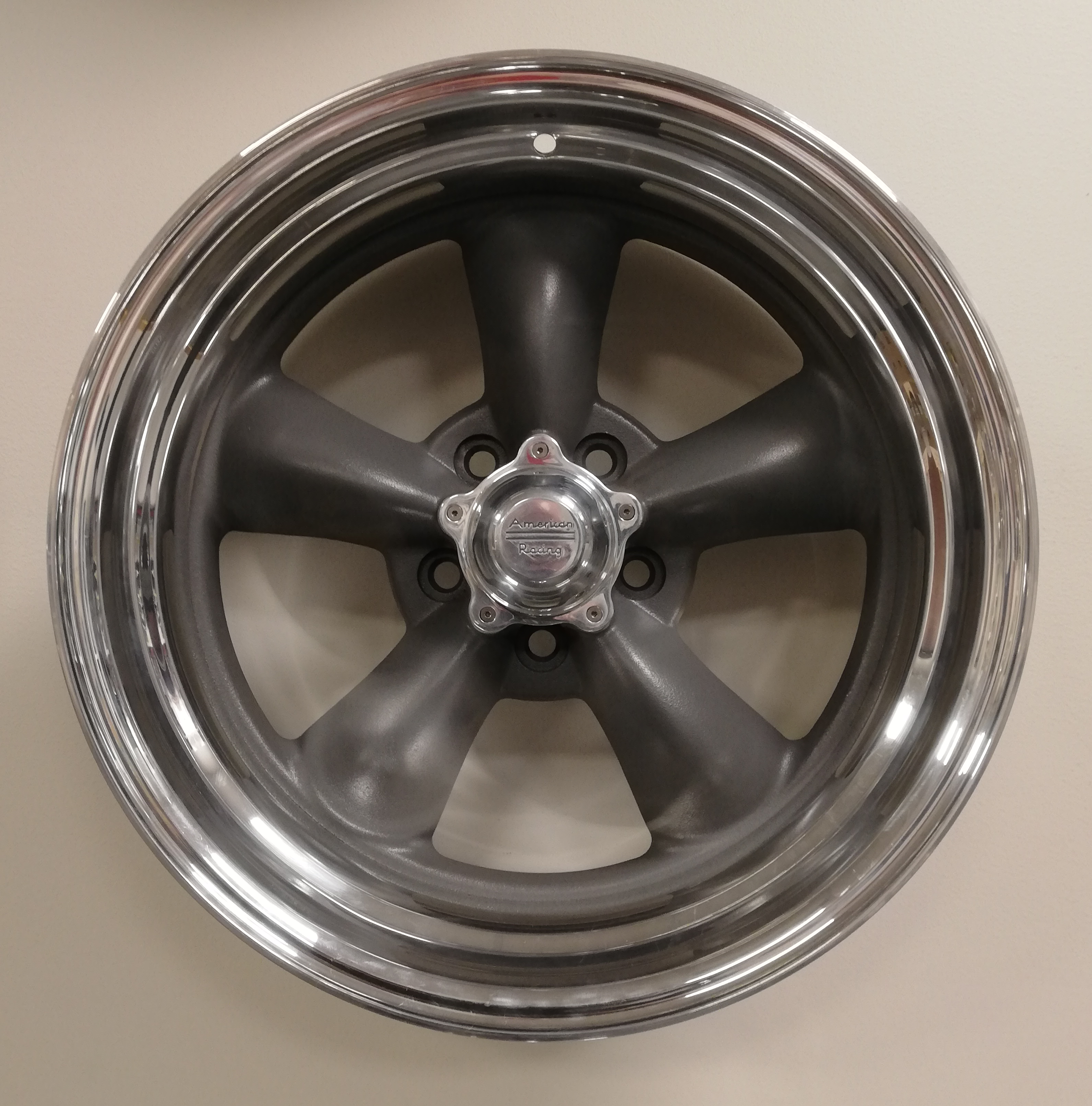 American Racing VN205 Classic Torq Thrust II